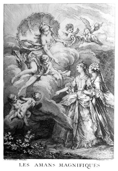 Moliere, 'Les Amants magnifiques', acte IV, sc. 2